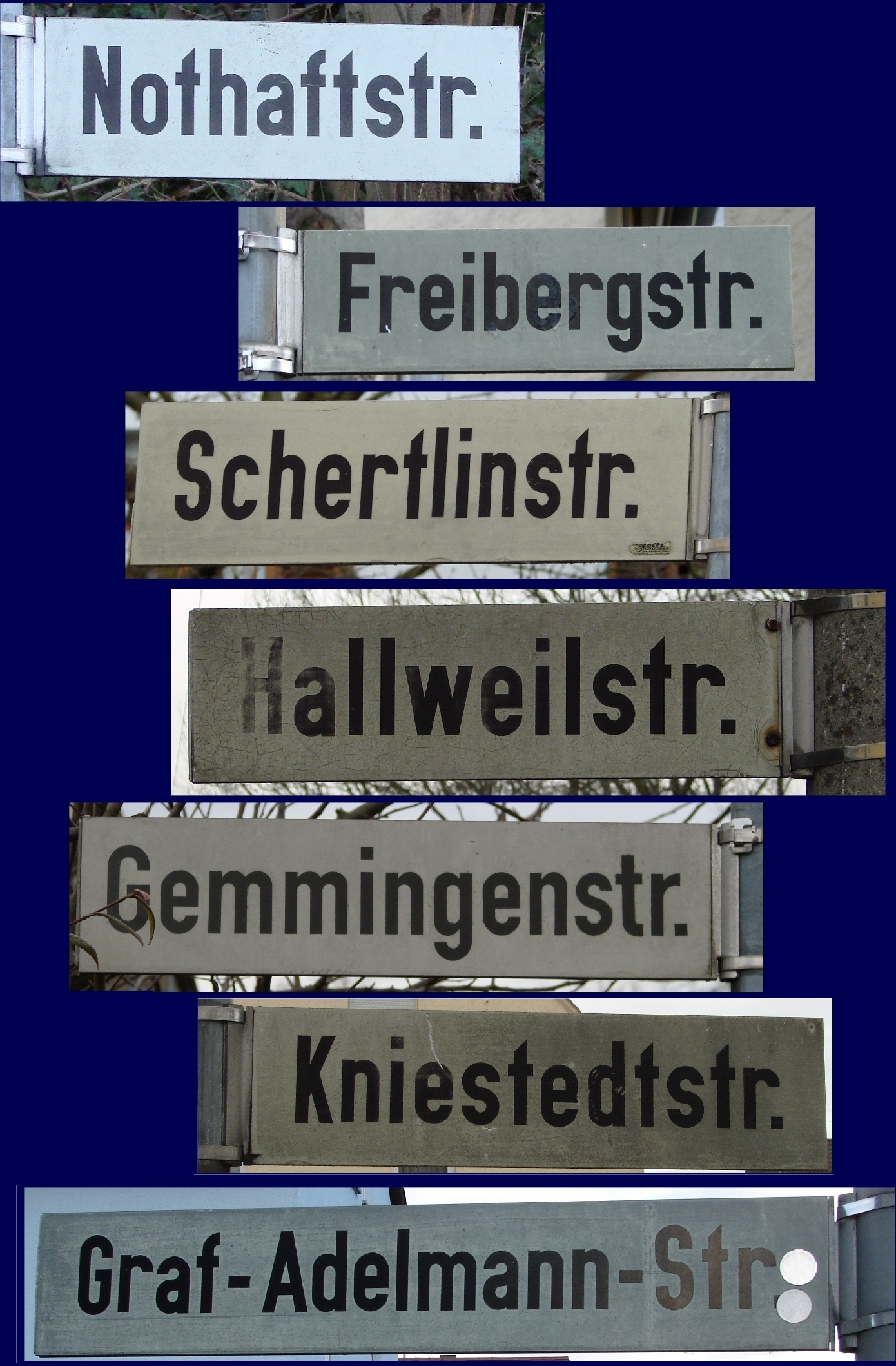 Freiberg am Neckar, names of noble families on street name plates